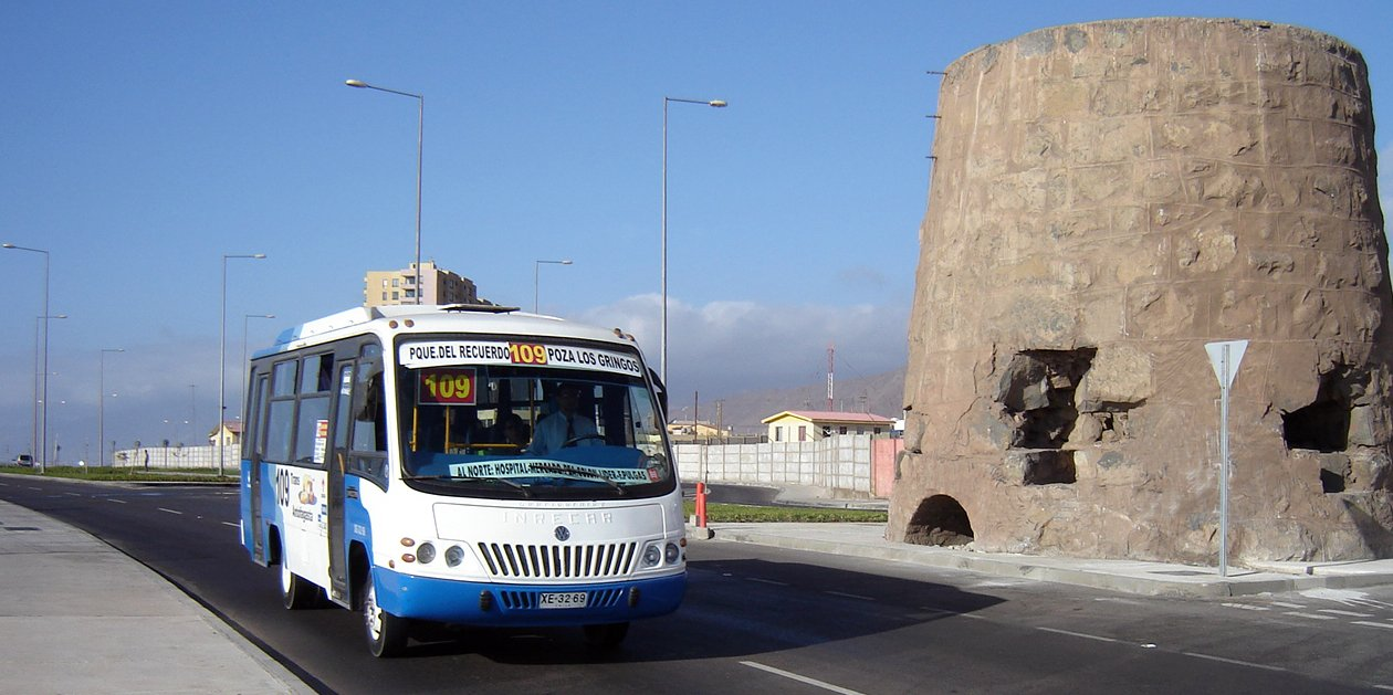 TransAntofagasta public transport service. Derivative work. Inrecar Capricornio II bus (reg. XE-32-69) with Volkswagen Volksbus chassis in Chile. Line 109.